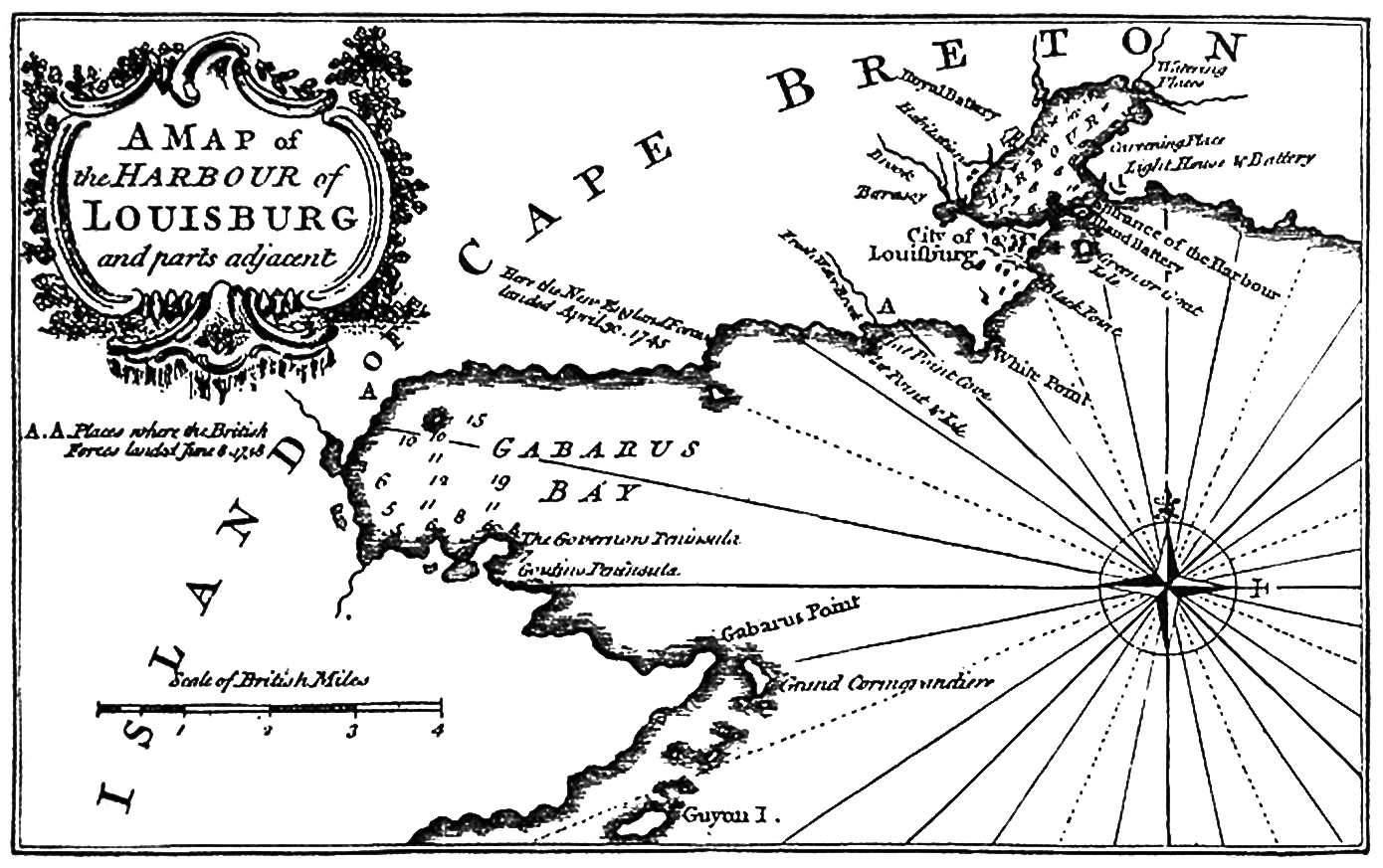 The French Fortress of Louisbourg, Nova Scotia in 1758